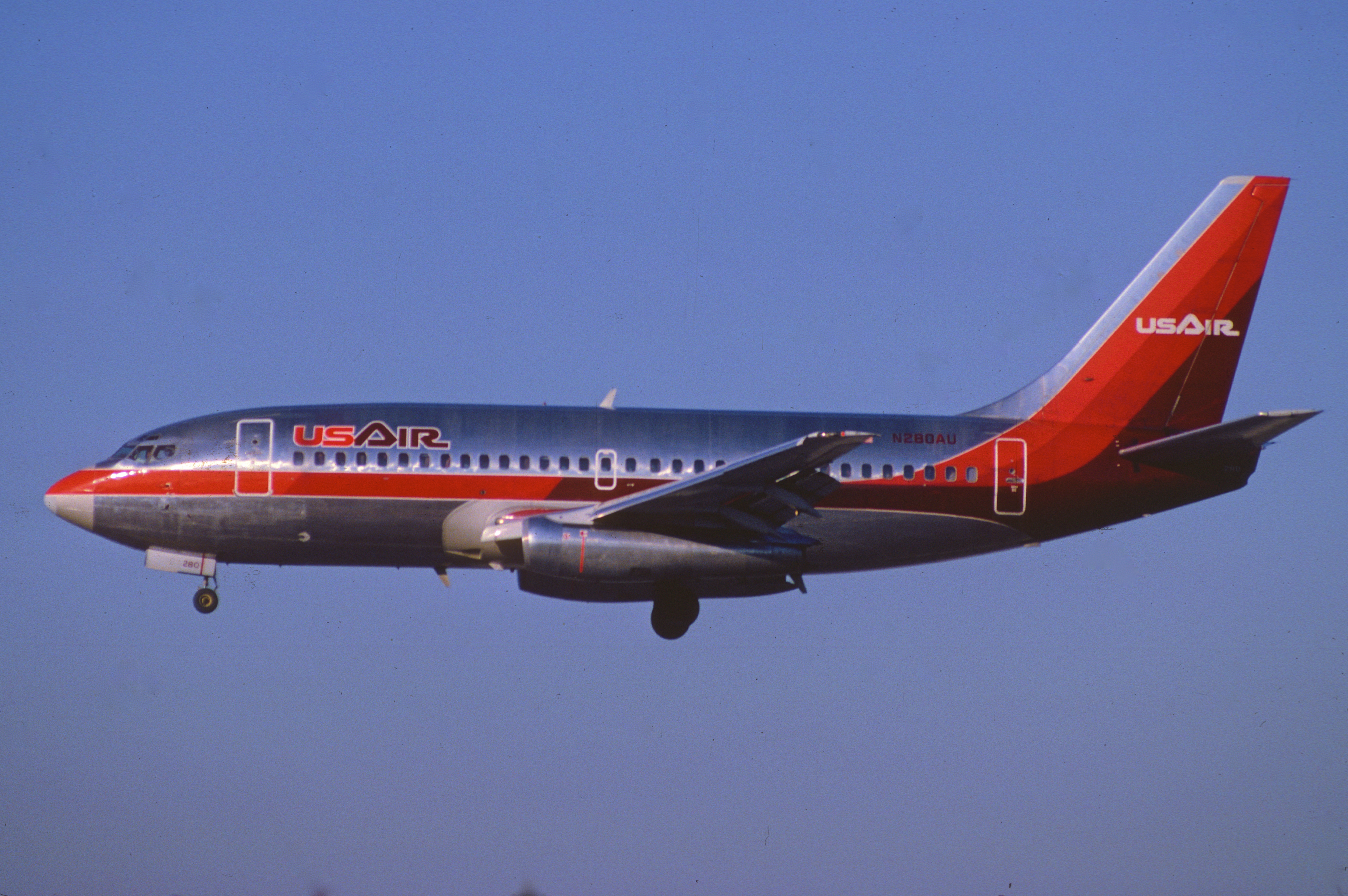 This Boeing 737-2B7 took its first flight on September 30, 1983... 01/12/1983 USAir N324AU 05/10/1988 USAir N280AU 27/02/1997 US Airways N280AU 13/04/2000 Vanguard Airlines N128NJ 17/09/2001 US Airways N280AU 01/03/2002 Jetran International N128NJ 16/07/2003 Fresh Air 5N-BFQ ceased operations 04/2007